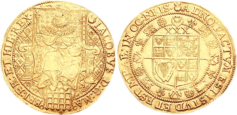 House of Stuart. James I of England. 1603-1625. AV Rose-ryal (12.49 g, 4h). Third coinage. London mint. Struck 1621-1623. James enthroned facing, holding orb and scepter; portcullis at feet, rose and lis pattern in fields; mm: thistle (engraved over spur rowel) Coat-of-arms over cross fleurée; XXX above, mm: thistle (engraved over spur rowel). Cf. Schneider 77 (same dies with original spur rowel mintmark); North 2108; SCBC 2632. Good VF, lightly toned. From the Andrew Wayne Collection. Ex Spink 164 (23 July 2003), lot 421; Spink 81 (19 November 1990), lot 46; J. Pellegrino Collection (Spink and Bank Leu, 26 April 1978), lot 30.